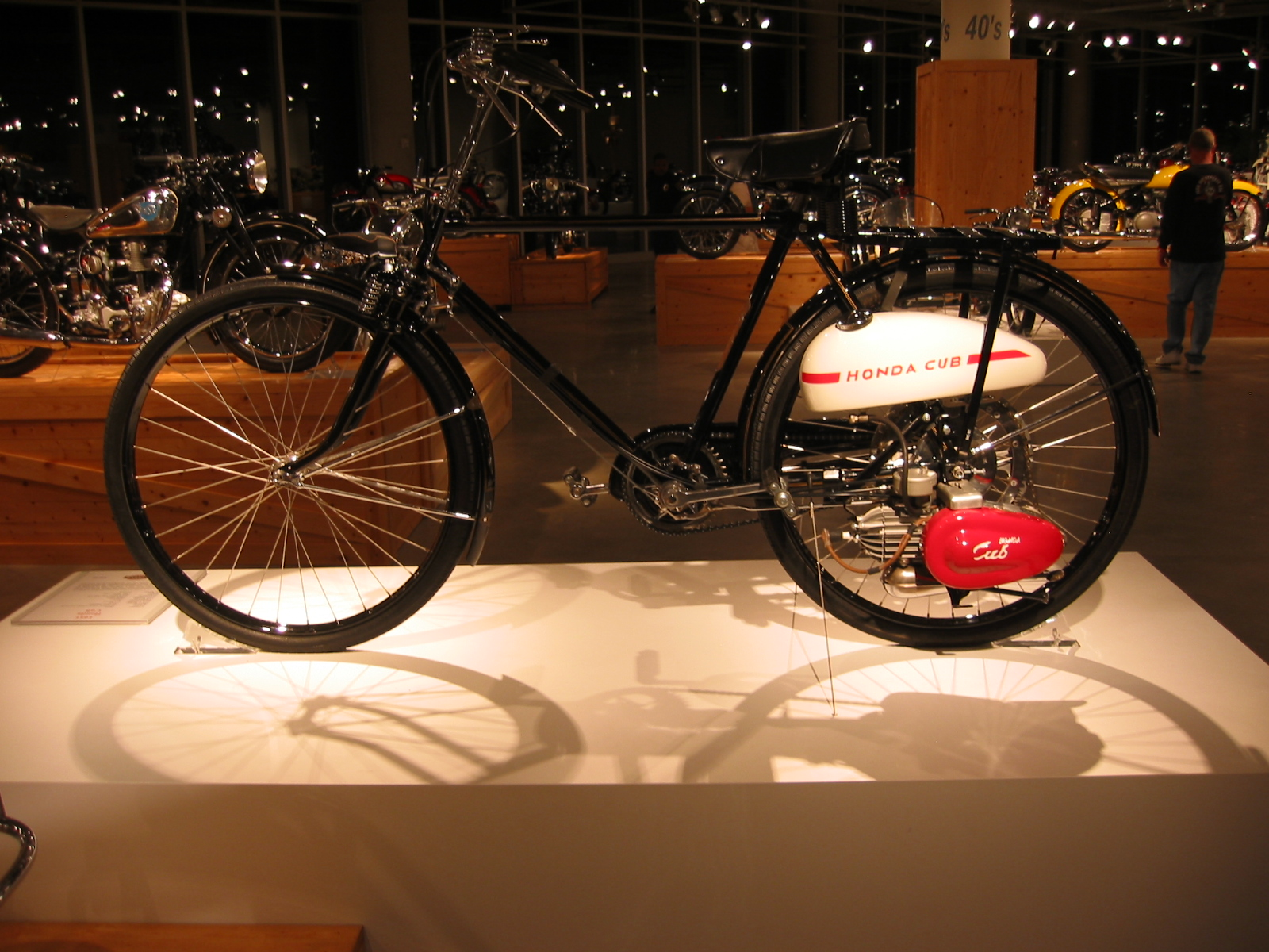 Honda Cub @ Barber Motorsports Museum More Description is here